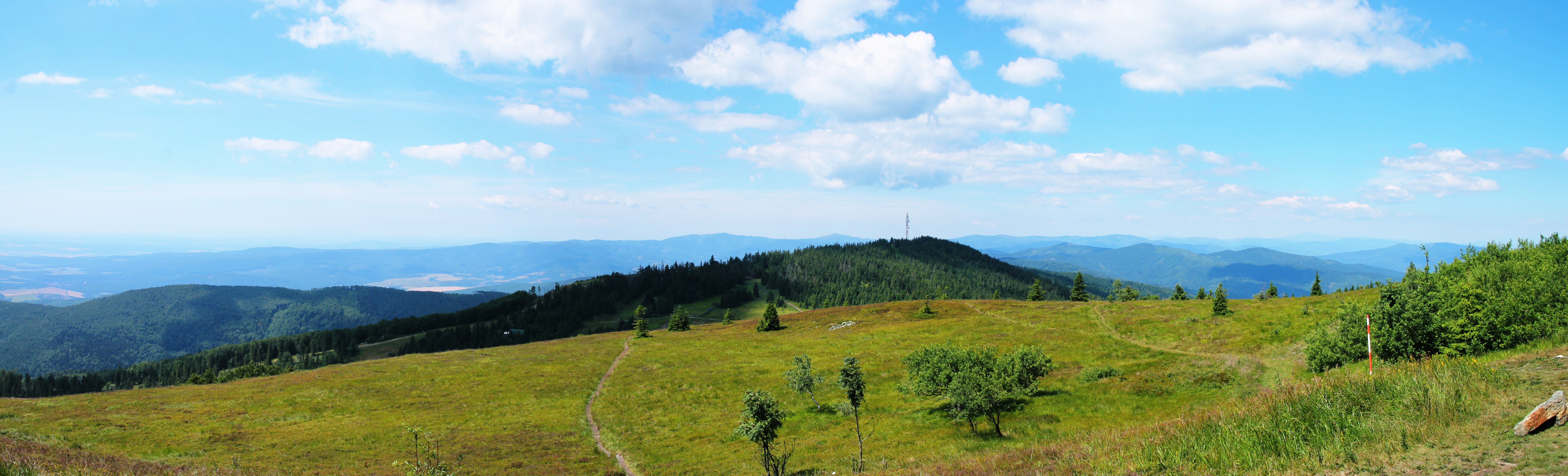 Kojšovská hoľa, view to the west